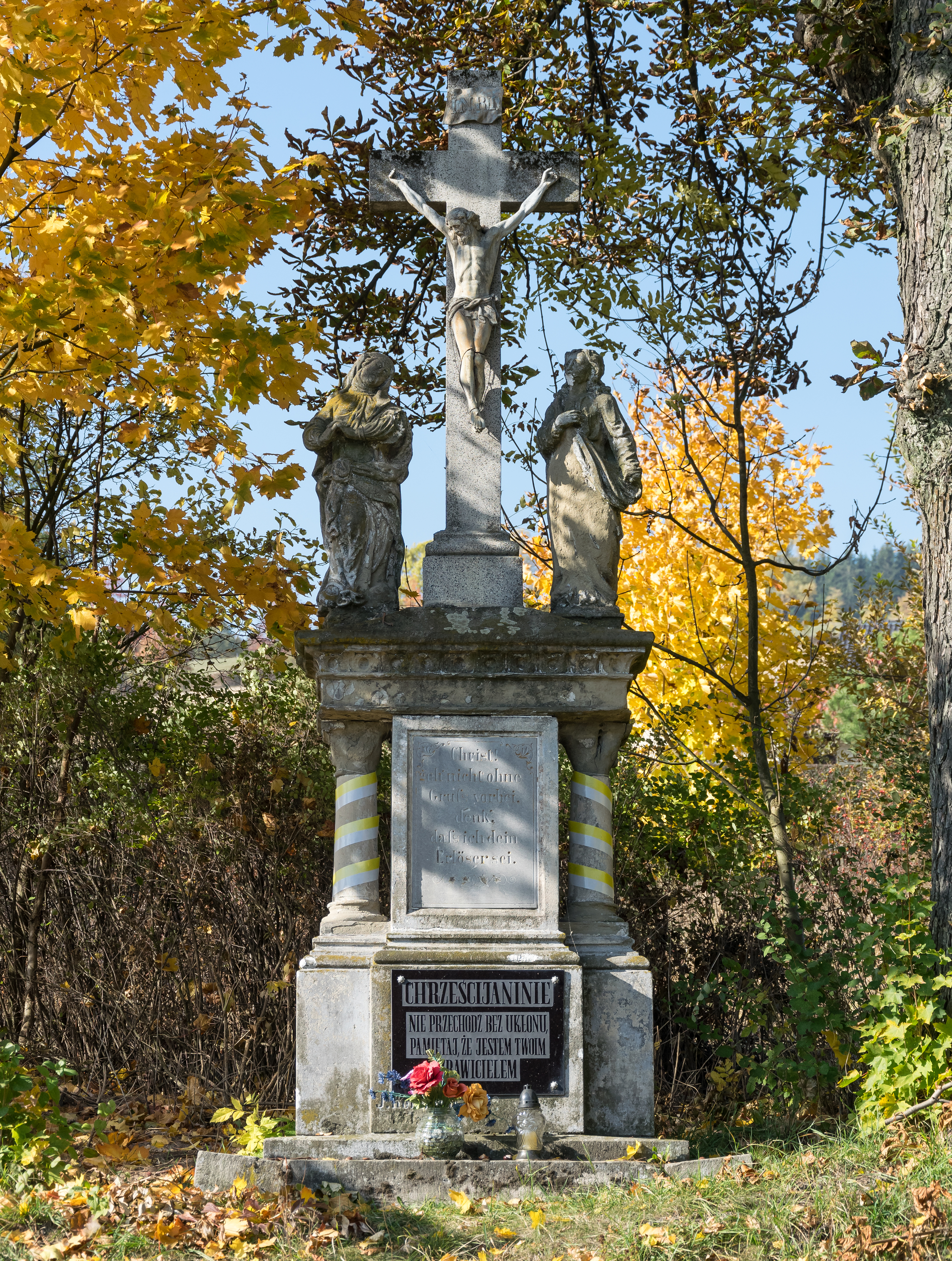 Crucifixion group in Jugów